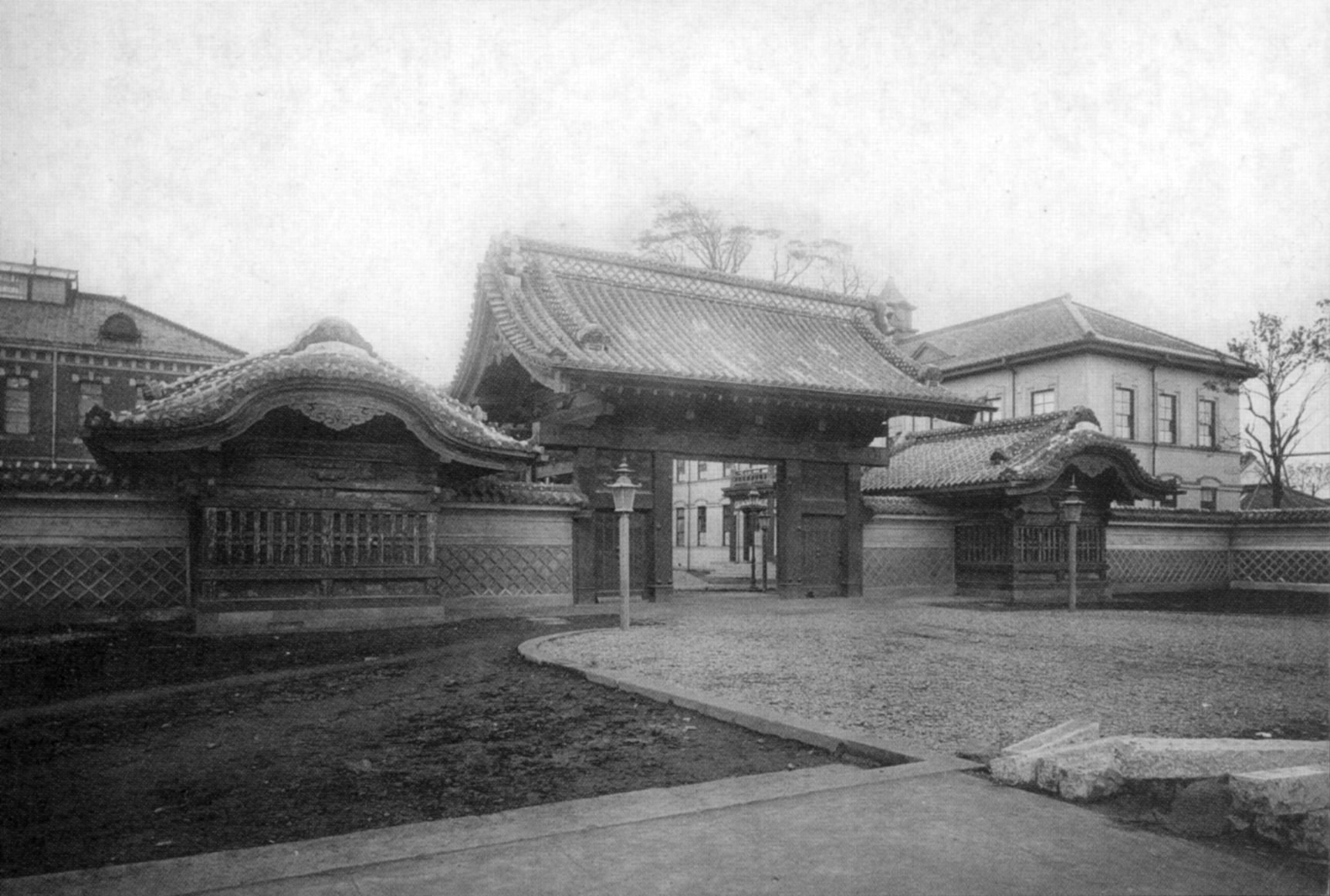 Akamon gate, Imperial University of Tokyo (ca 1910)